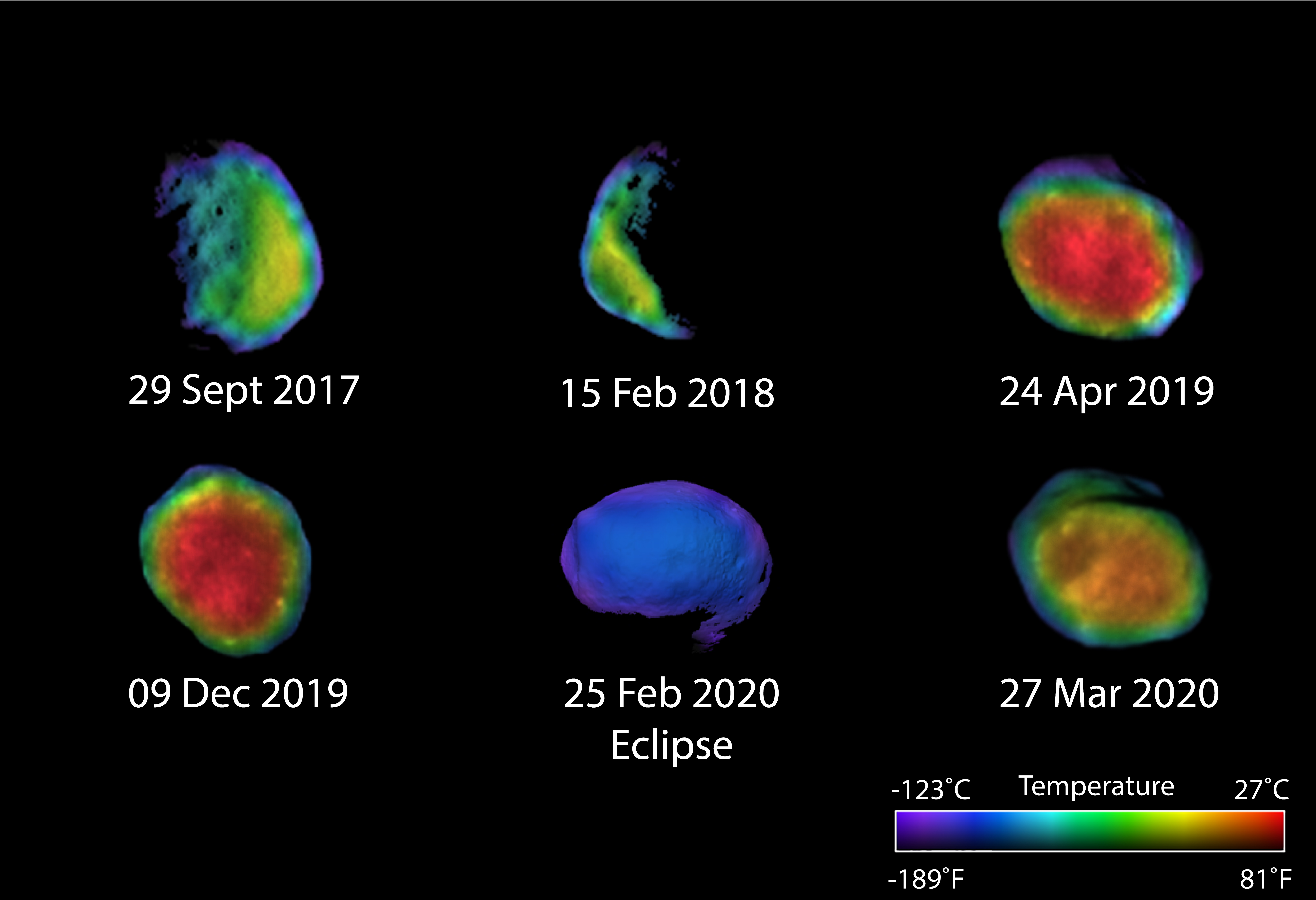 PIA23893: Odyssey's Six Views of Phobos These six views of the Martian moon Phobos were captured by NASA's Odyssey orbiter as of March 2020. The orbiter's infrared camera, the Thermal Emission Imaging System (THEMIS), is used to measure temperature variations that provide insight into the physical properties and composition of the moon. Chronologically, the views represent waxing, waning and full views of the moon. On Feb. 25, 2020, Phobos was observed during a lunar eclipse, where Mars' shadow completely blocked sunlight from reaching the moon's surface. This provided some of the coldest temperatures measured on Phobos to date: The coldest measured was about minus189 degrees Fahrenheit (minus123 degrees Celsius). On March 27, 2020, Phobos was observed exiting an eclipse, when the surface was still warming up. All of the THEMIS infrared images are colorized and overlain on THEMIS visible images taken at the same time, except for the eclipse image, which is overlain on a computer-generated visible image of what Phobos would have looked like if it wasnâ€™t in complete shadow. Phobos is about 15 miles (about 25 kilometers) across. THEMIS was built and is operated by Arizona State University in Tempe and images of Phobos were processed by Northern Arizona University. The prime contractor for the Odyssey project, Lockheed Martin Space in Denver, developed and built the orbiter. Mission operations are conducted jointly from Lockheed Martin and from JPL, a division of Caltech in Pasadena.